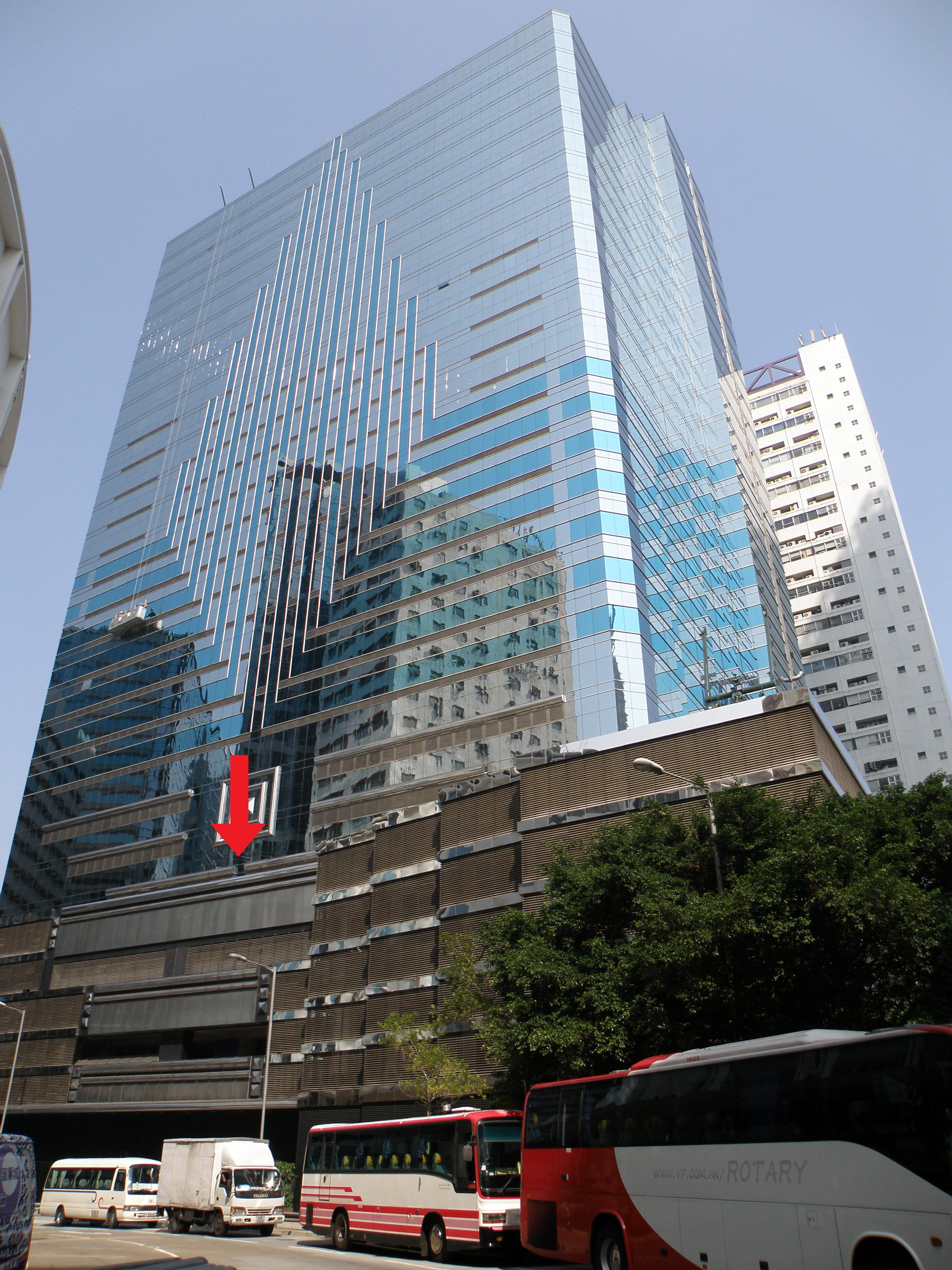 The North Point Towngas Administration Tower in Hong Kong has occured a serious Industrial Accident in 2nd June 1993, a temporary lift drop off to the podium (red arrow) from 20th floor when the tower was in construction, which cause 12 workers died.